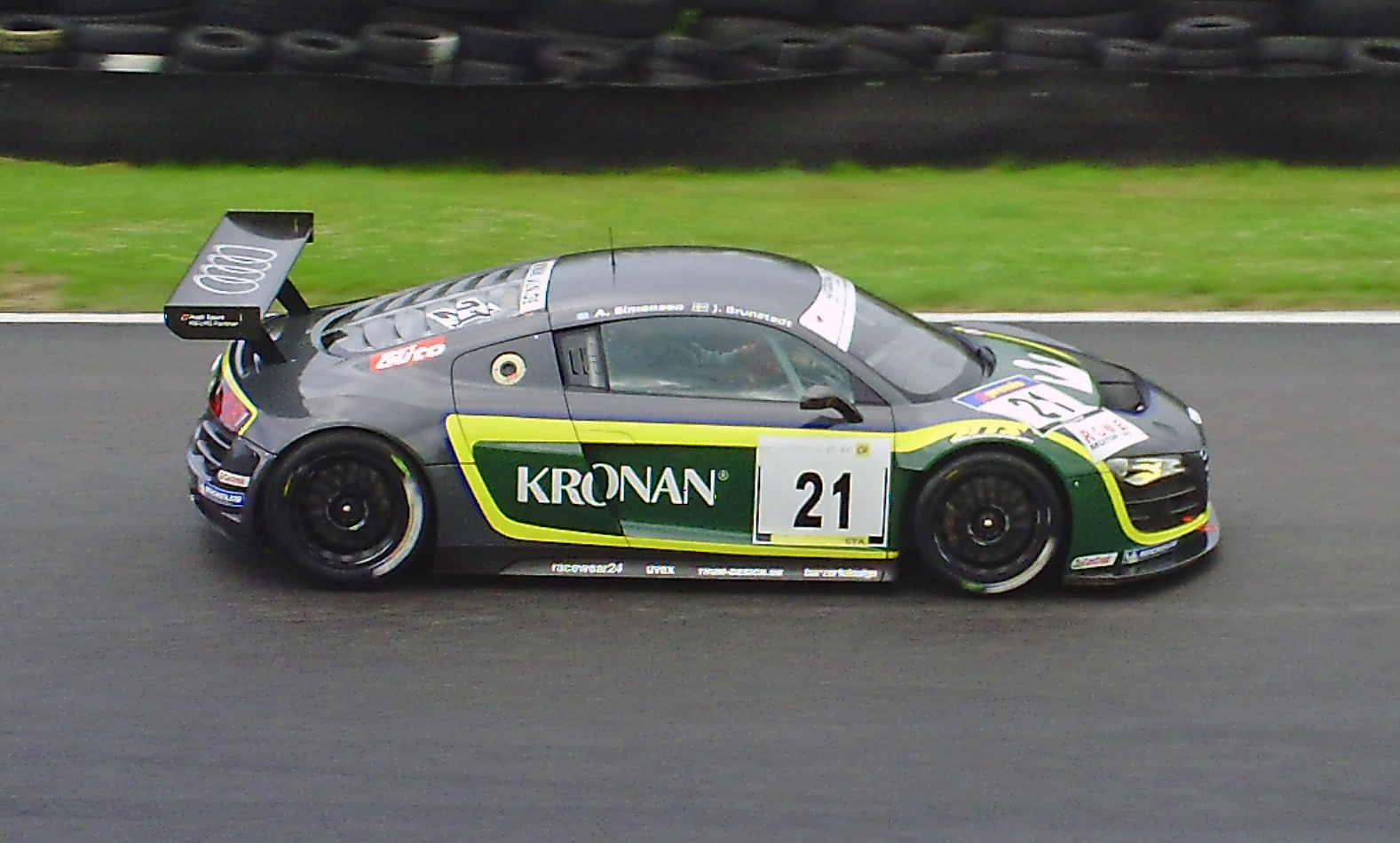 An Audi R8 Le Mans GT3 driven by Andreas Simonsen and Jan Brunstedt for Brunstedt Motorsport in Swedish GT Series at Falkenbergs Motorbana, 2011